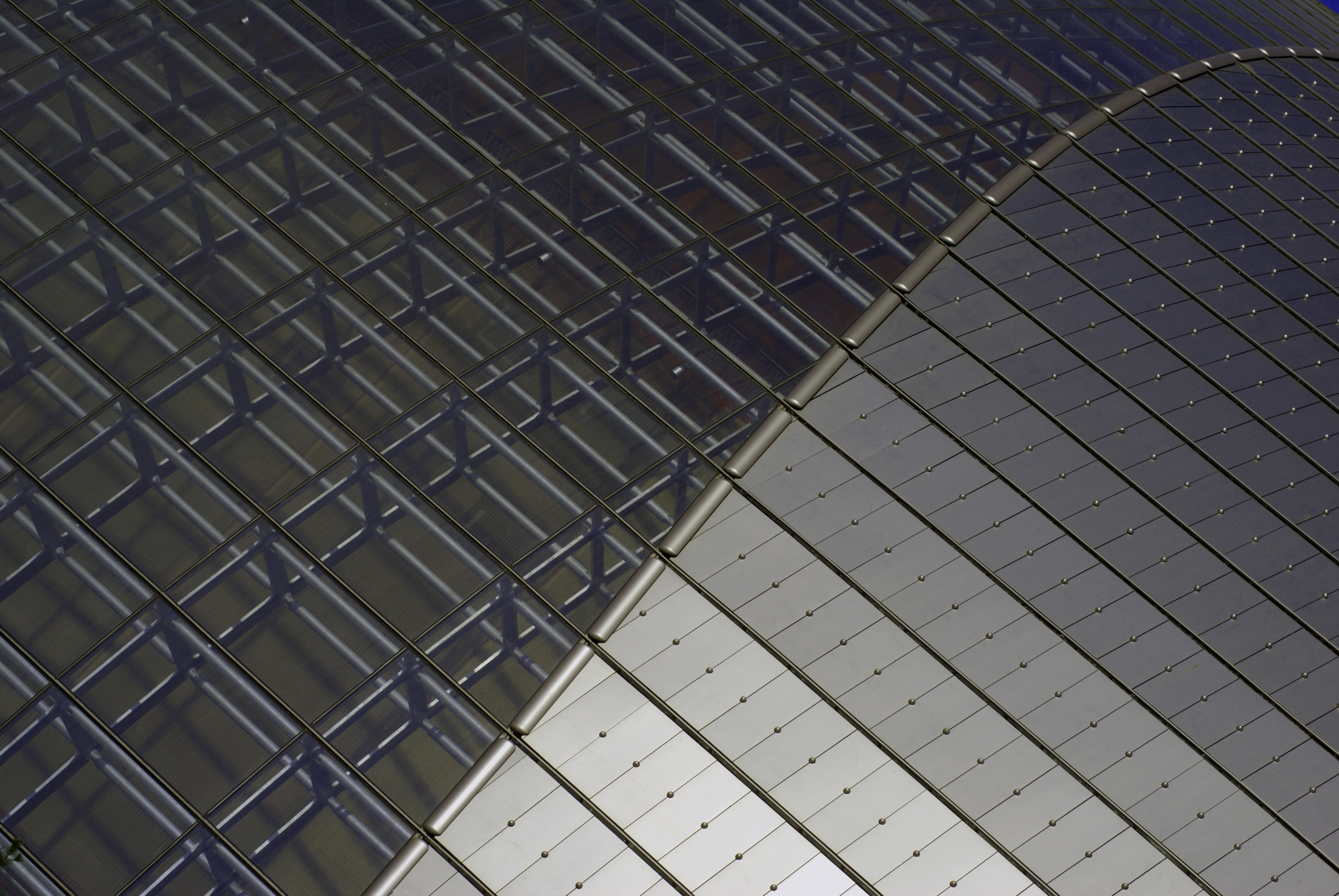 Detail of the National Grand Theatre in Beijing, China. Transition from glass to titanium portion of roof.